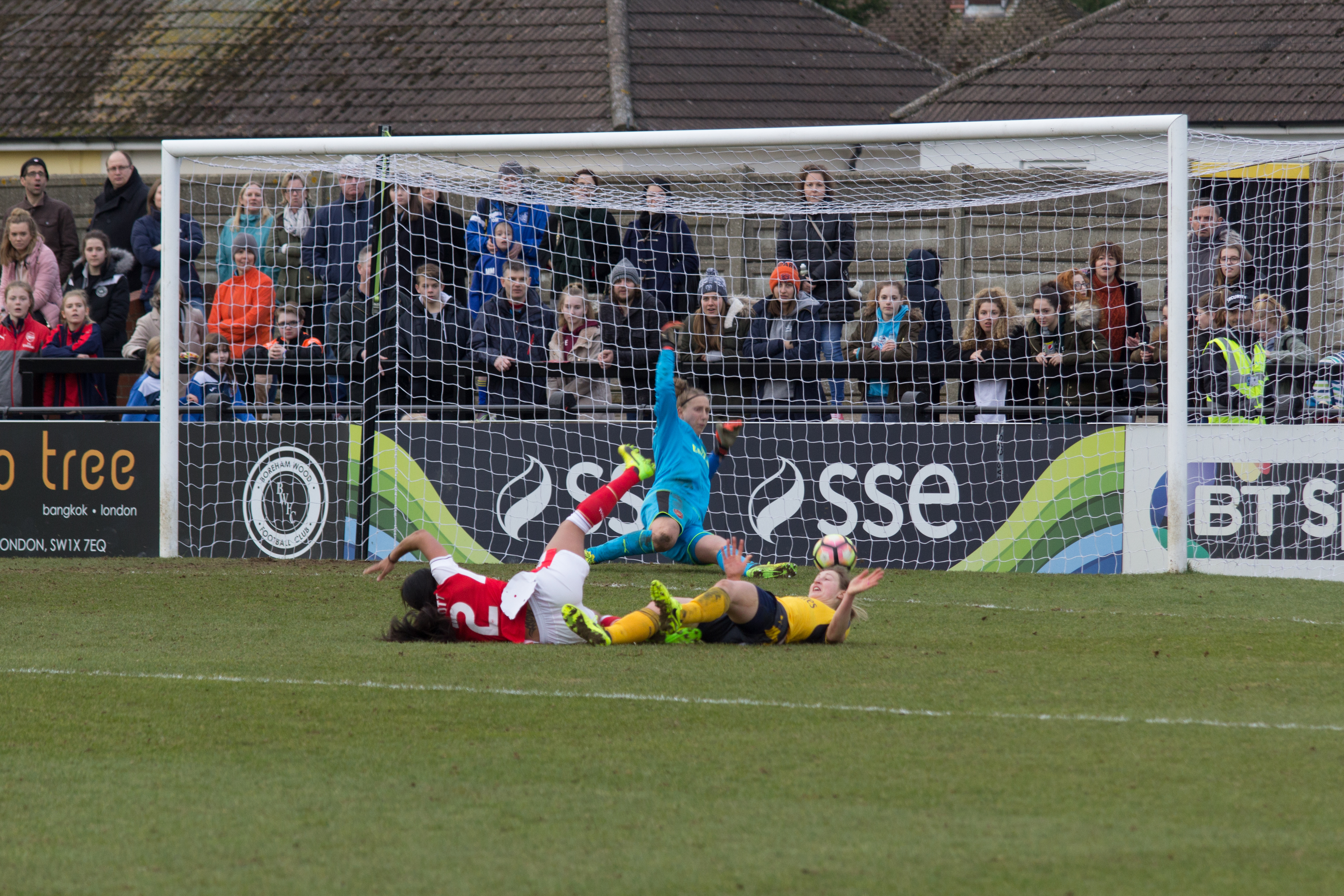 Arsenal LFC (Red) v Kelly Smith All-Stars XI (Yellow), 19 February 2017 – second half